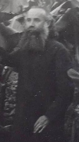 Metropolitan Bishop Boris of Nevrokop Eparchy. Blagoevgrad